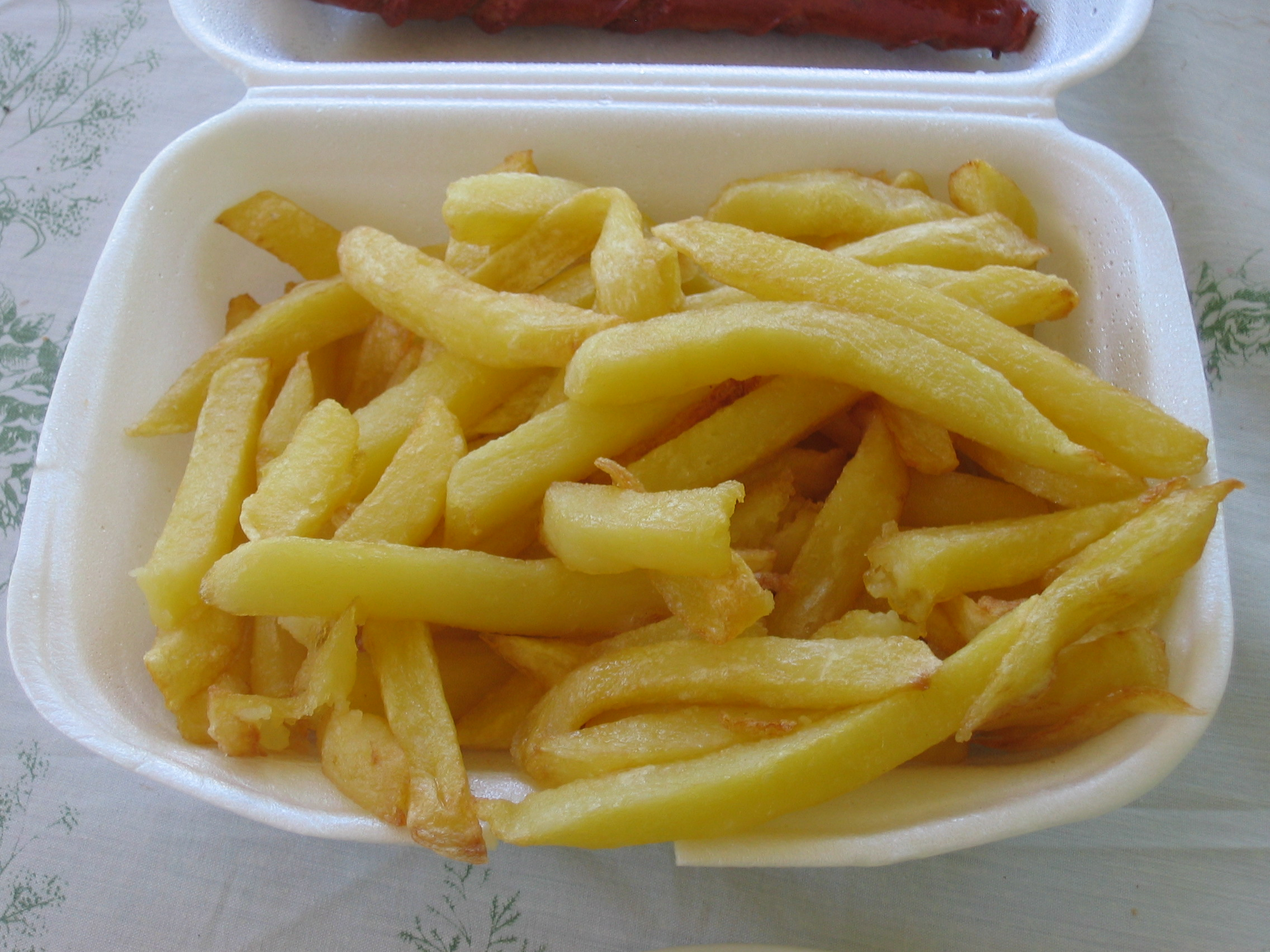 Fries, South-African style